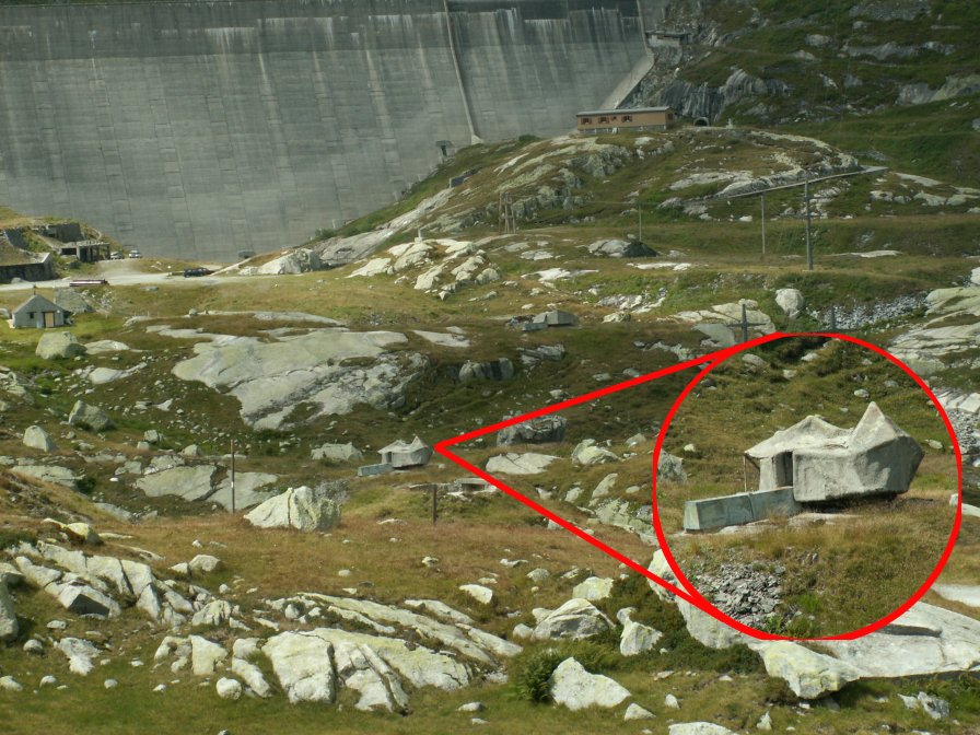 Stone-like bunker for a 10.5 cm canon in the Swiss alps (near Saint-Gothard). It could hit its target at a range of 15 up to 17 km.